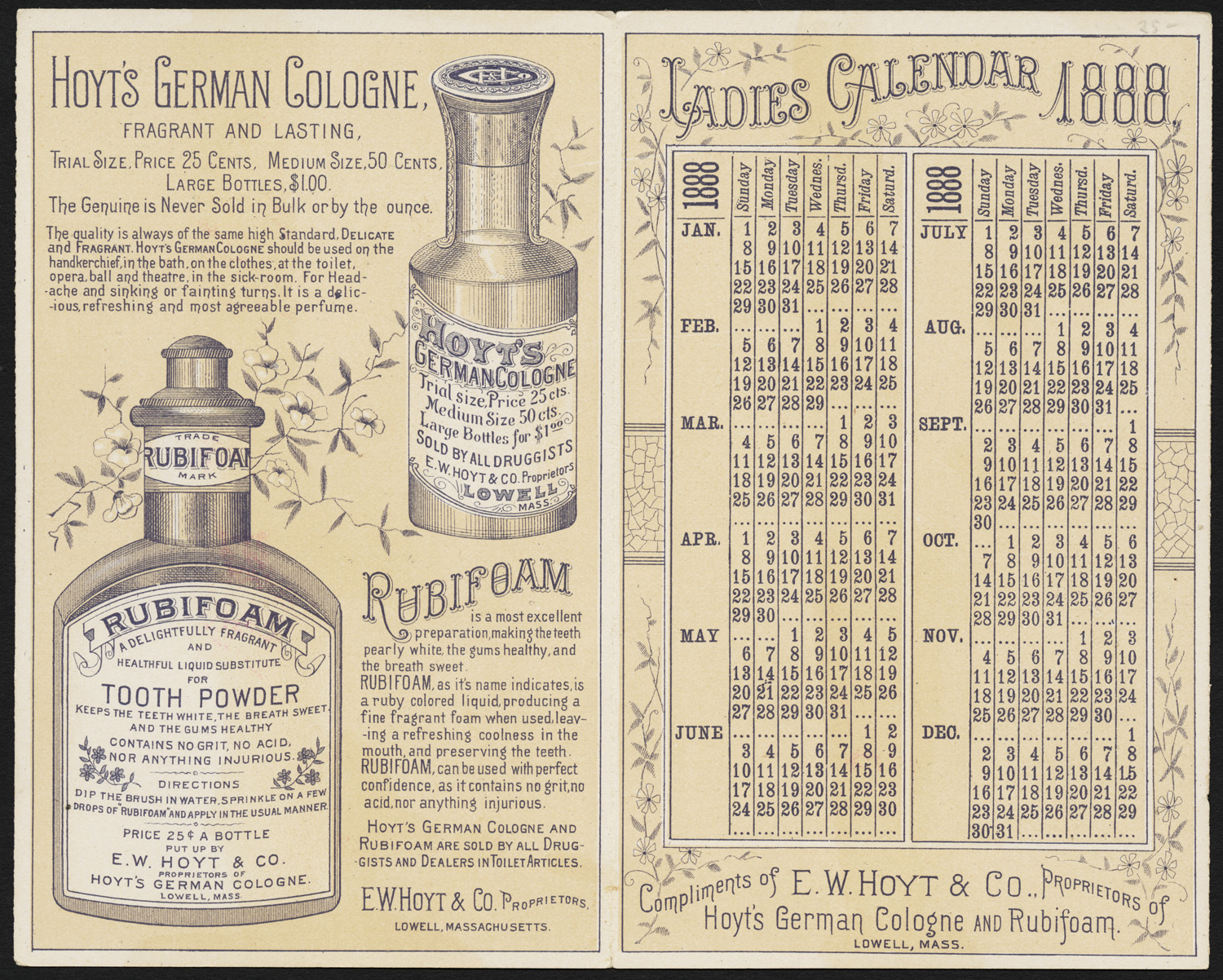 Scan of a 1888 American Trade Cards with an advertisement for hair care products.